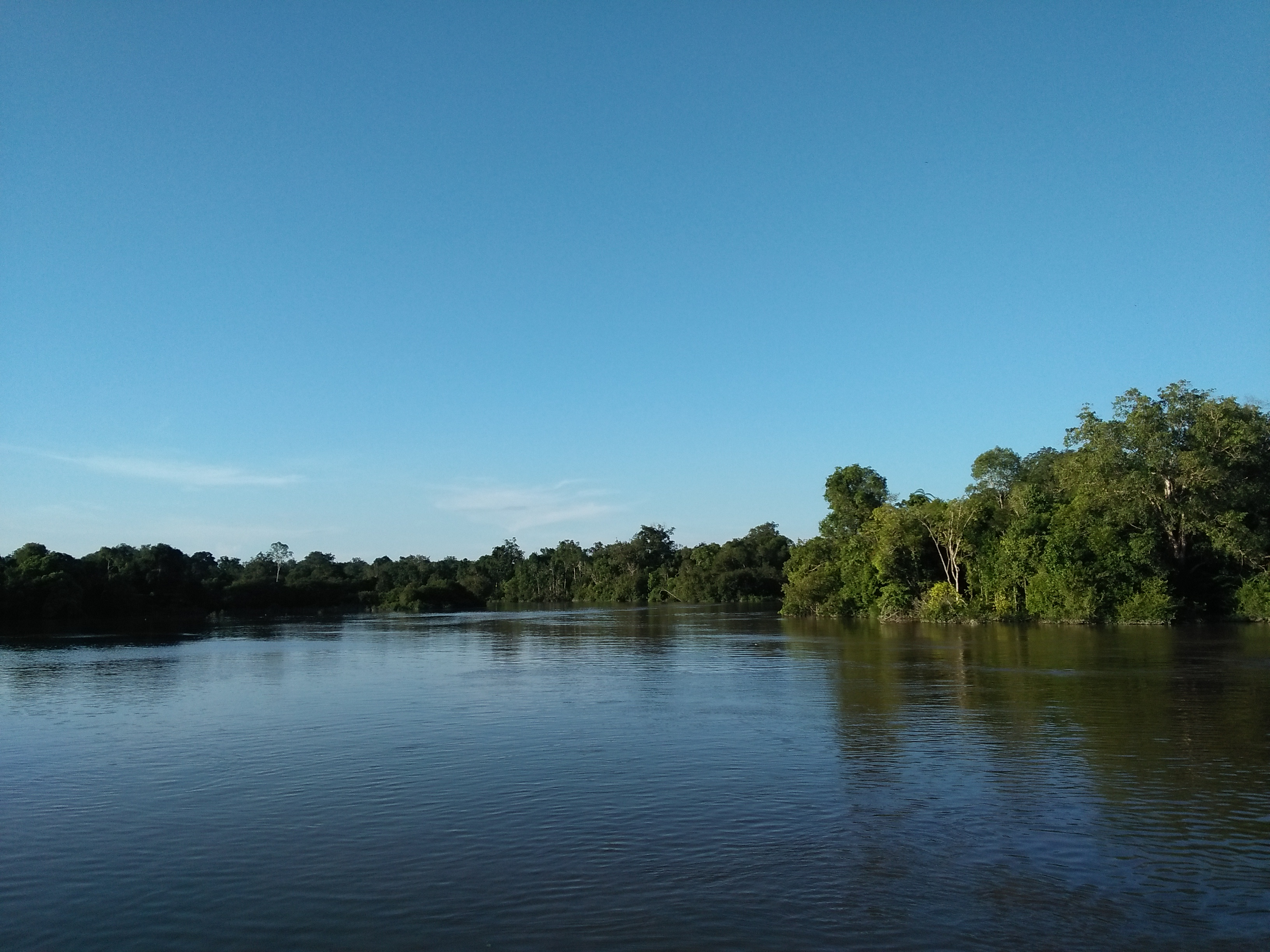 Telok Kaja is one of tourist attractions located in Sei Gohong Village. Telok Kaja has a dock to take orangutan back to forest after doing reintroduction by Borneo Orang Utan Survival Foundation (BOSF). The forest that is accross the river (look at the picture) is the habitat where orangutan will be taken back. While the river is the stream of Rungan River. There is a boat that can take us to down the river so we can enjoy the panorama and we can possibly get a chance to see orangutan doing their activity freely in their habitat.